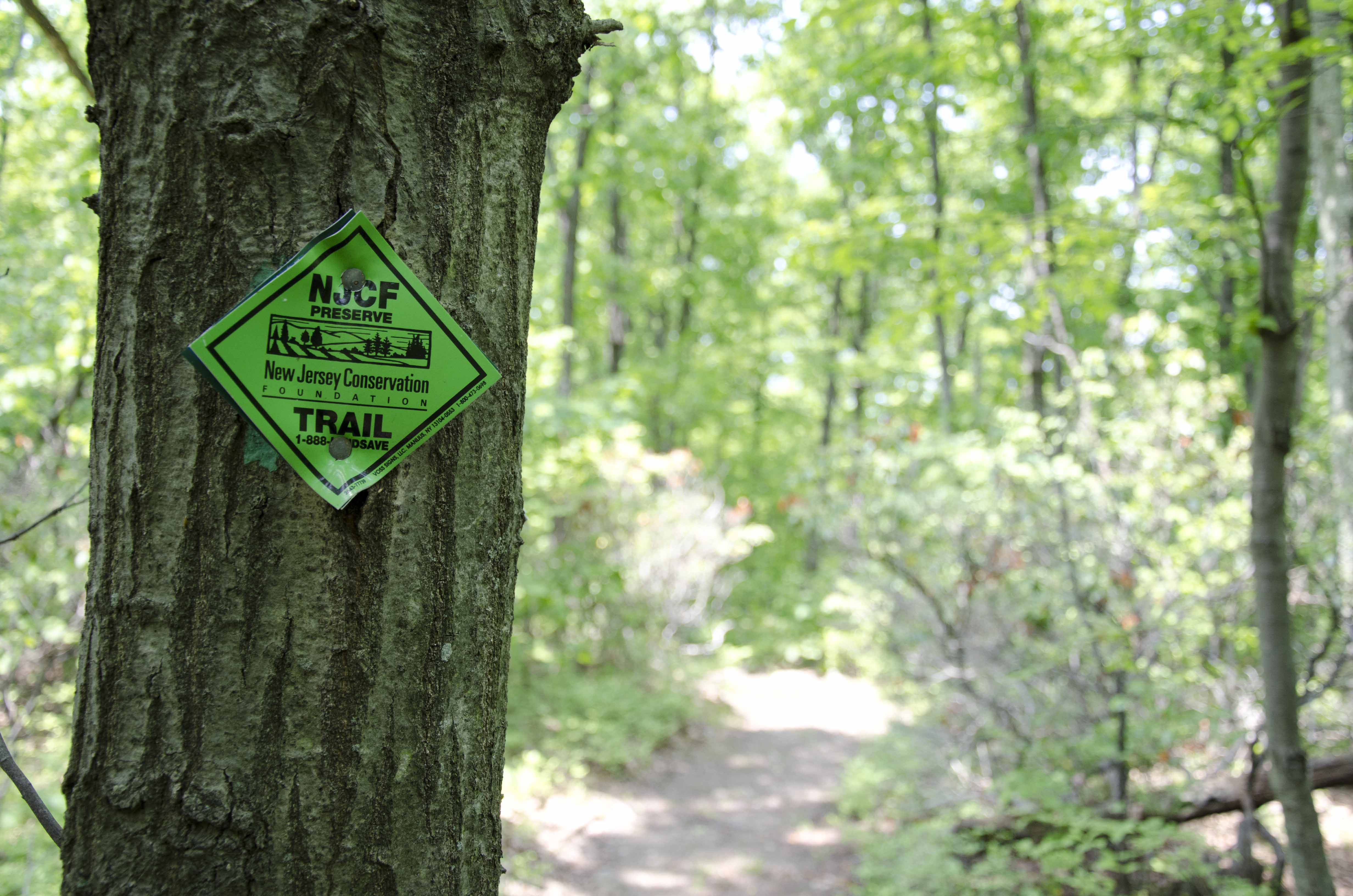 Example of the trail marker at Apshawa preserve in West Milford, NJ